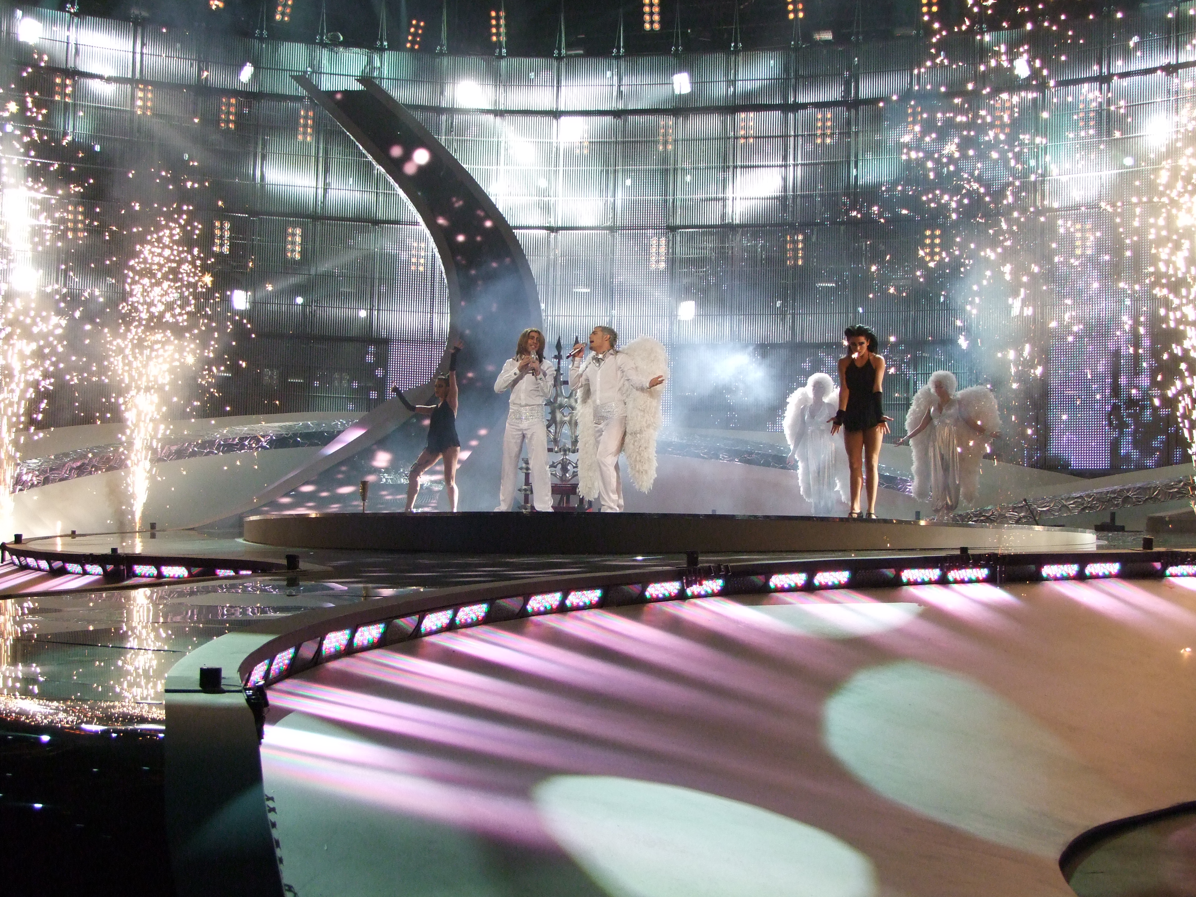 Eurovision Song Contest 2008, 1st semifinal Azerbaijan: Elnur & Samir - Day after day